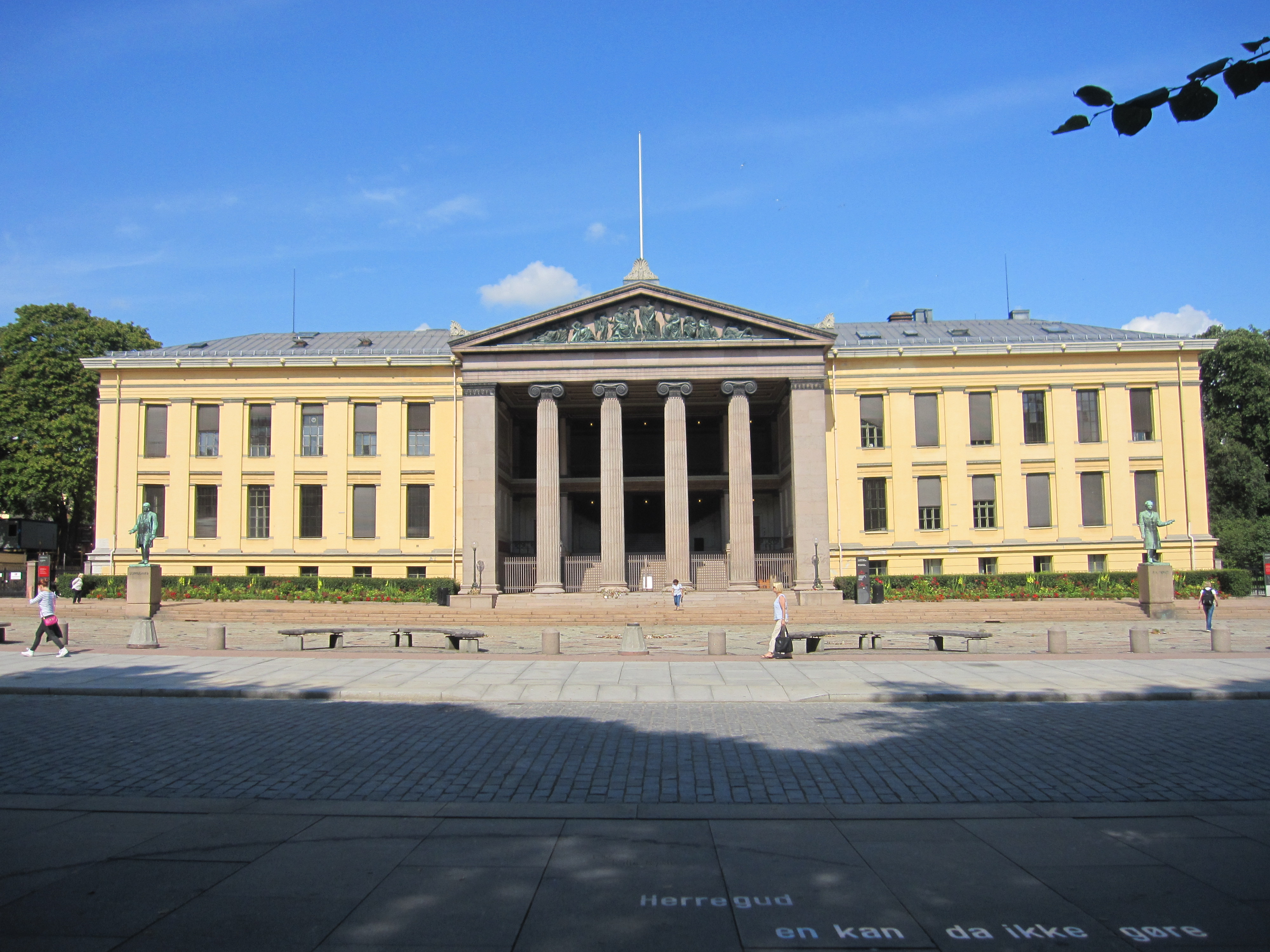 Captured at oslo norway